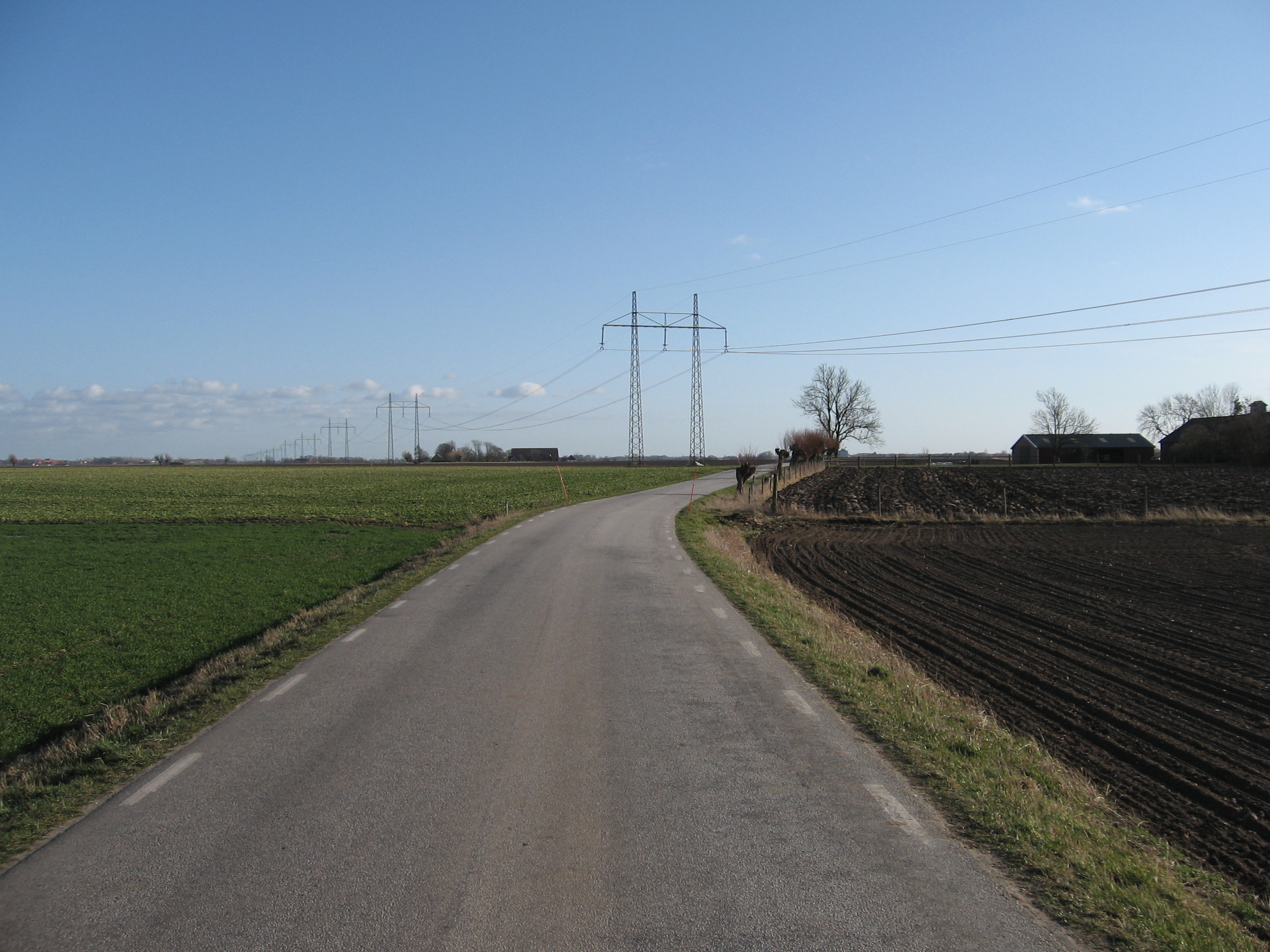 Single-circuit 400 kV power line from Barsebäck nuclear power plant, Stamhem Lund